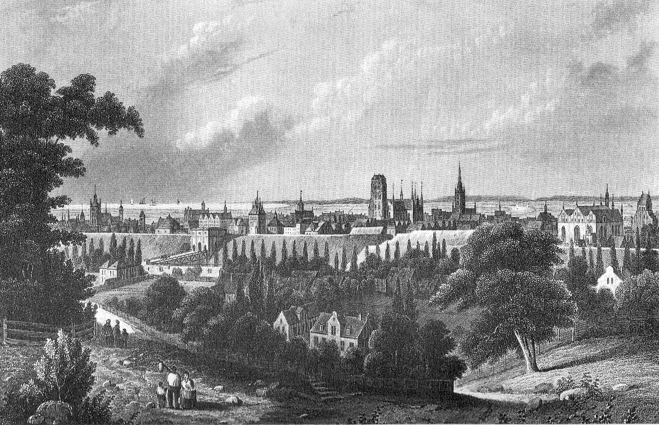 Gdańsk historic view ca 1850.